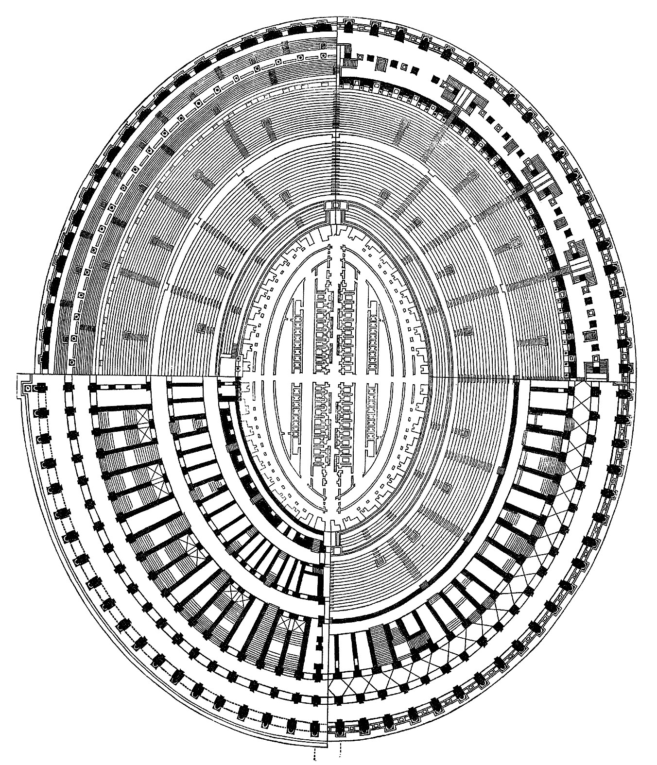 Plan of the Colosseum